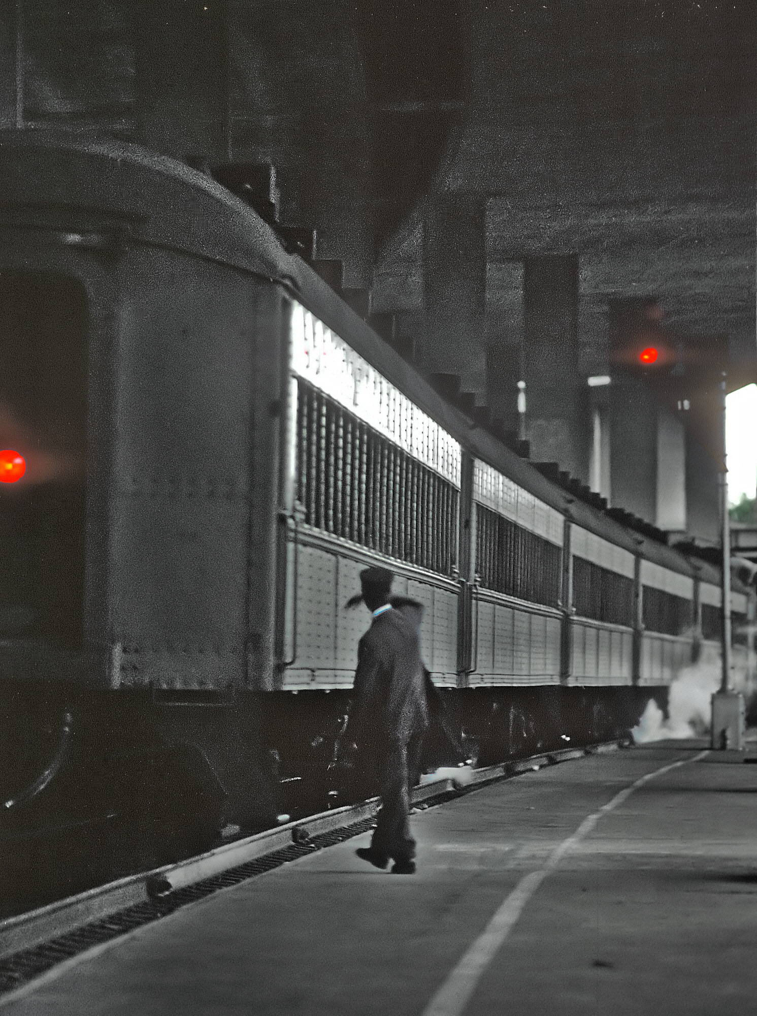 A southbound Peninsula Commute train (then in the process of becoming Caltrain) at 22nd Street station in April 1985